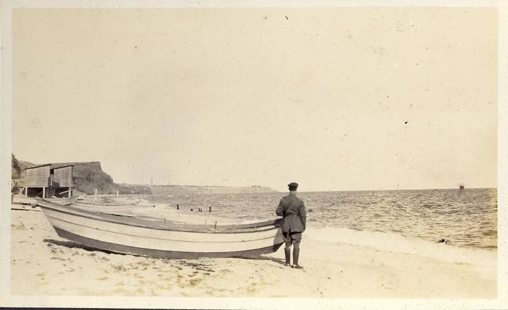 Black sea. Odessa shores. Nearby Lustdorf colony.